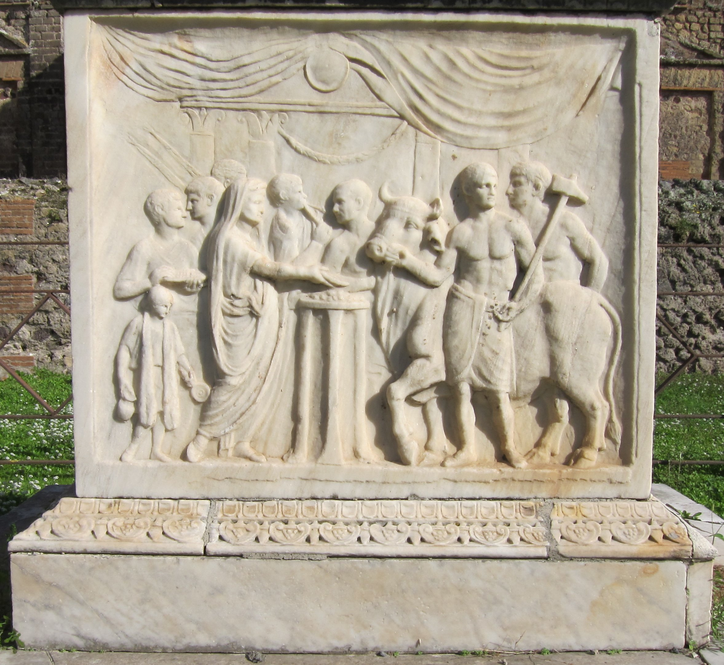 Alter in the Temple of Vespasian (Pompeii)